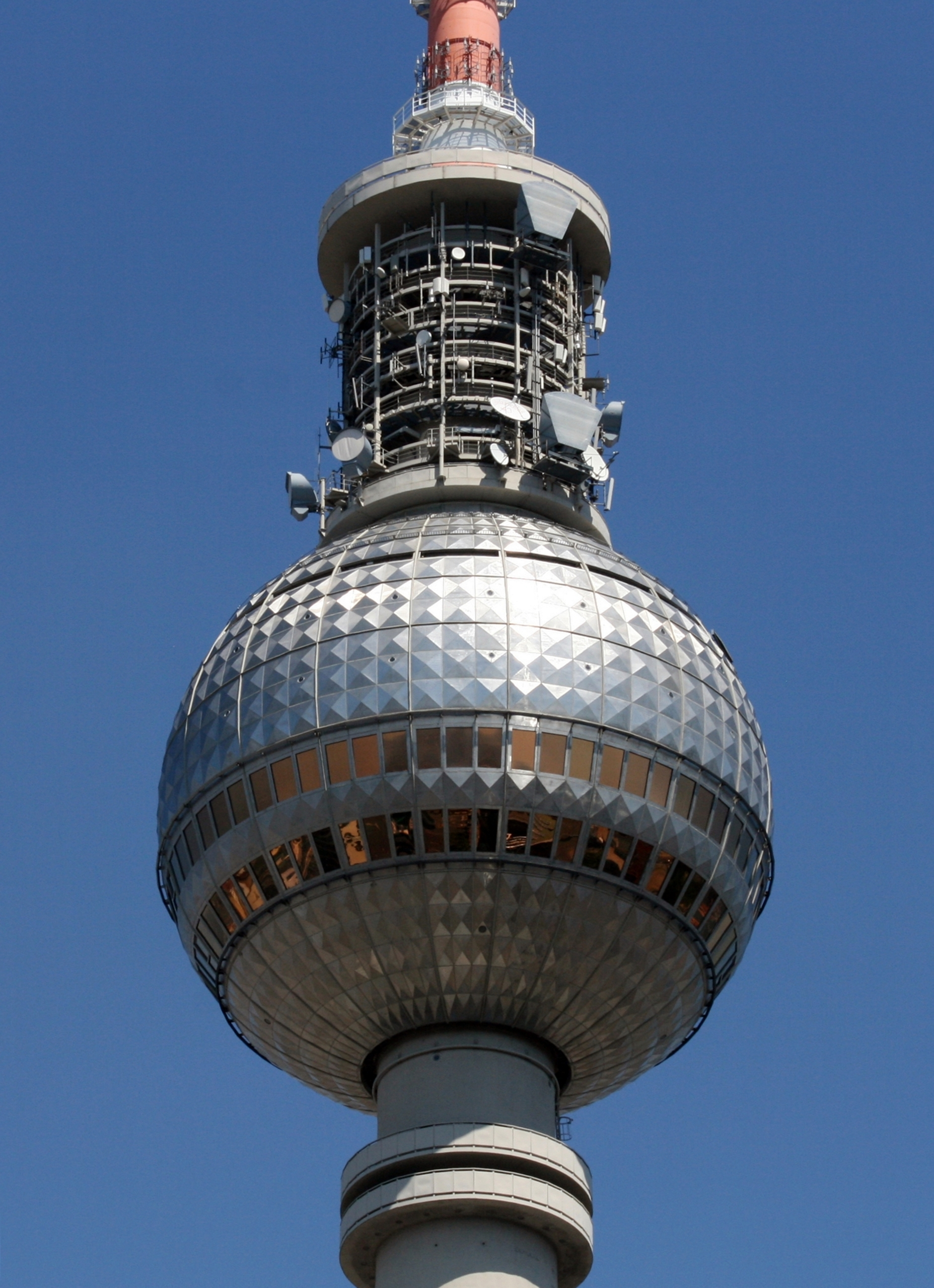 Berlin, Germany: Television-tower (Fernsehturm) at Alexanderplatz, sphere with antennas above.